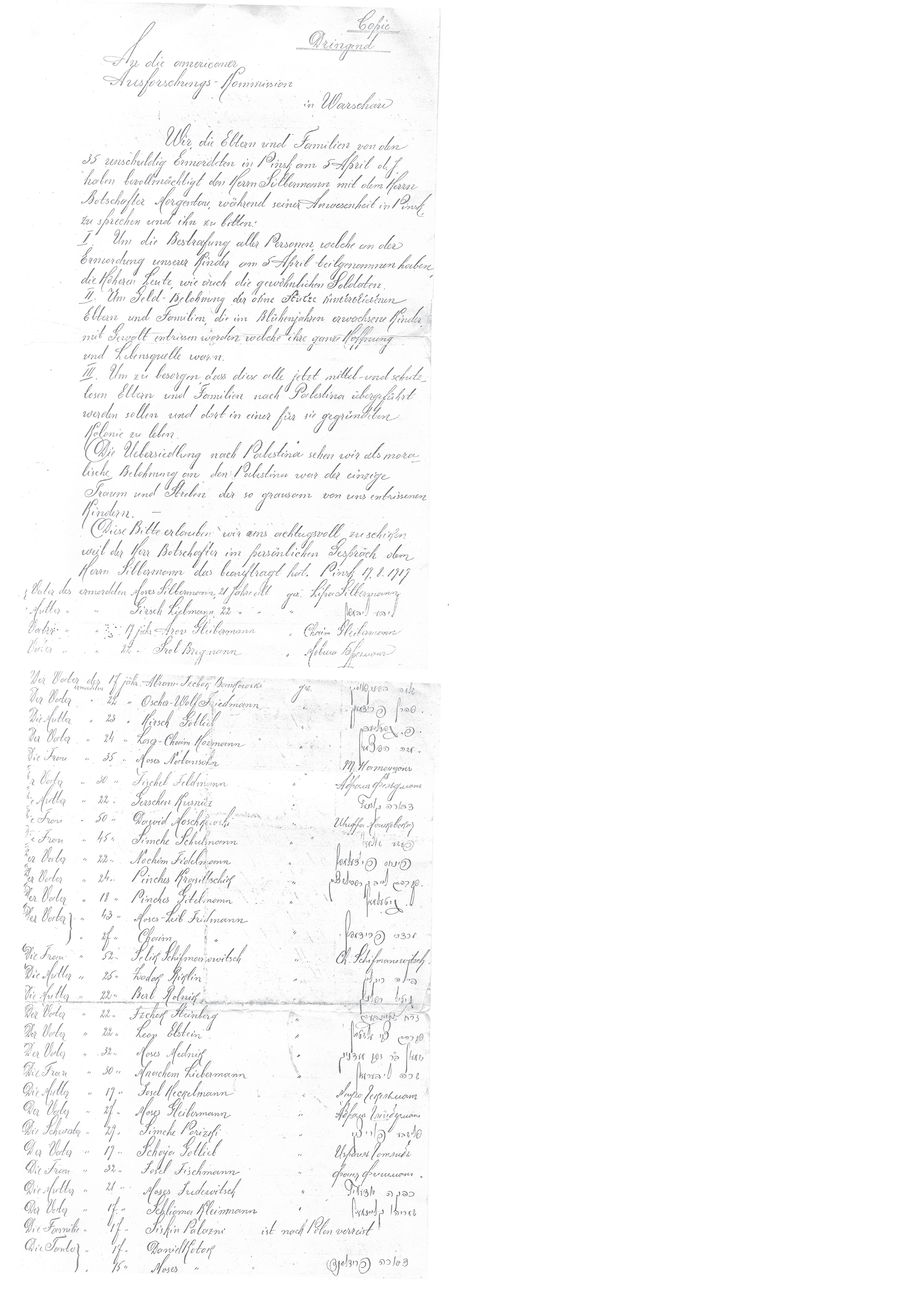 This is a letter from the victims of the Pinsk massacre asking for help.